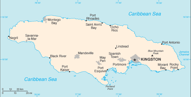 Map of Jamaica.